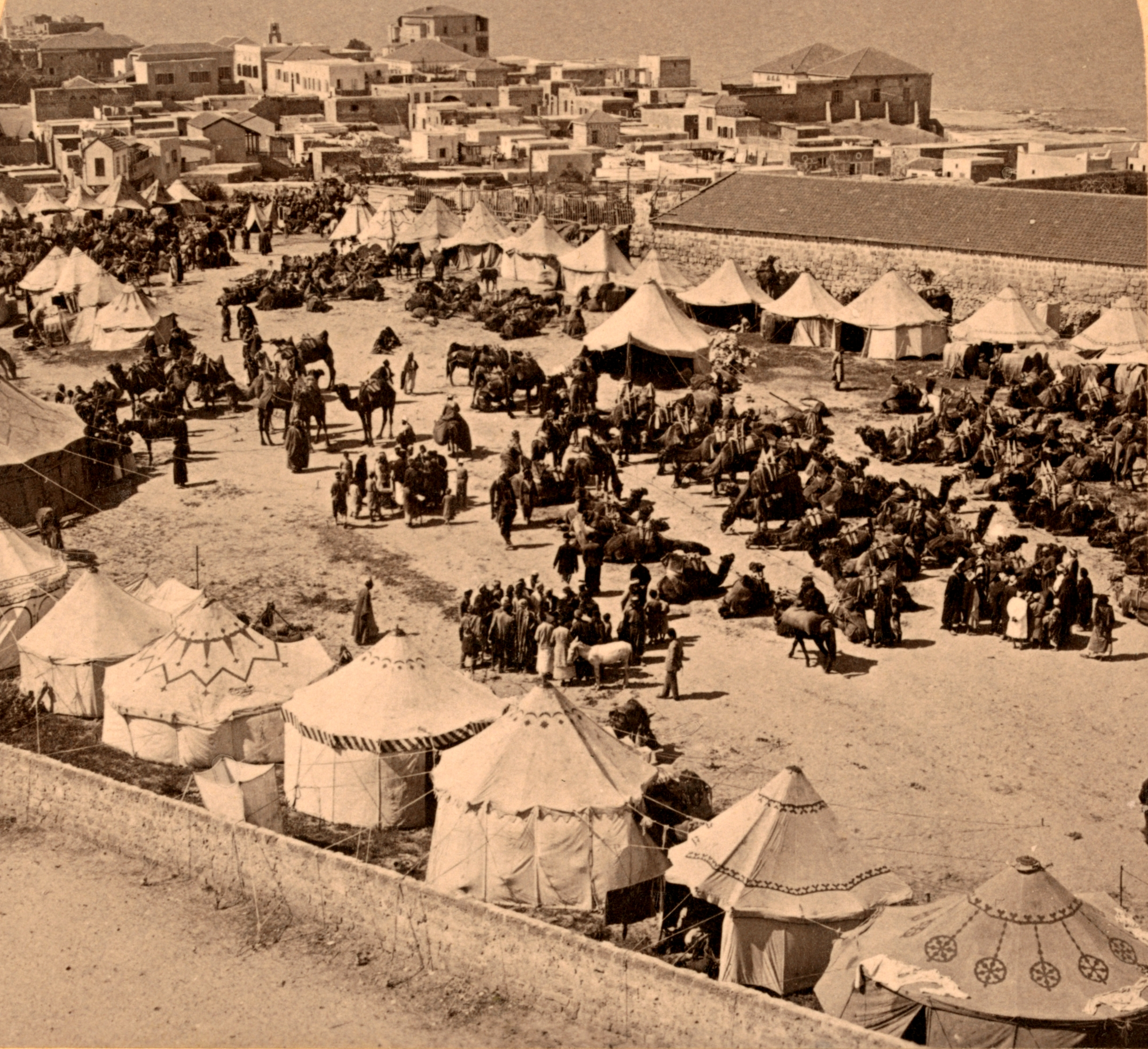 A Persian camp of pilgrims to Mecca, Jaffa, Palestine